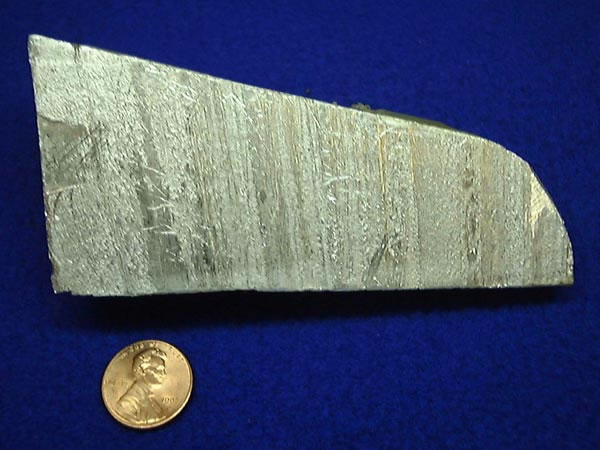 Aluminium metal with an American penny for size comparison.